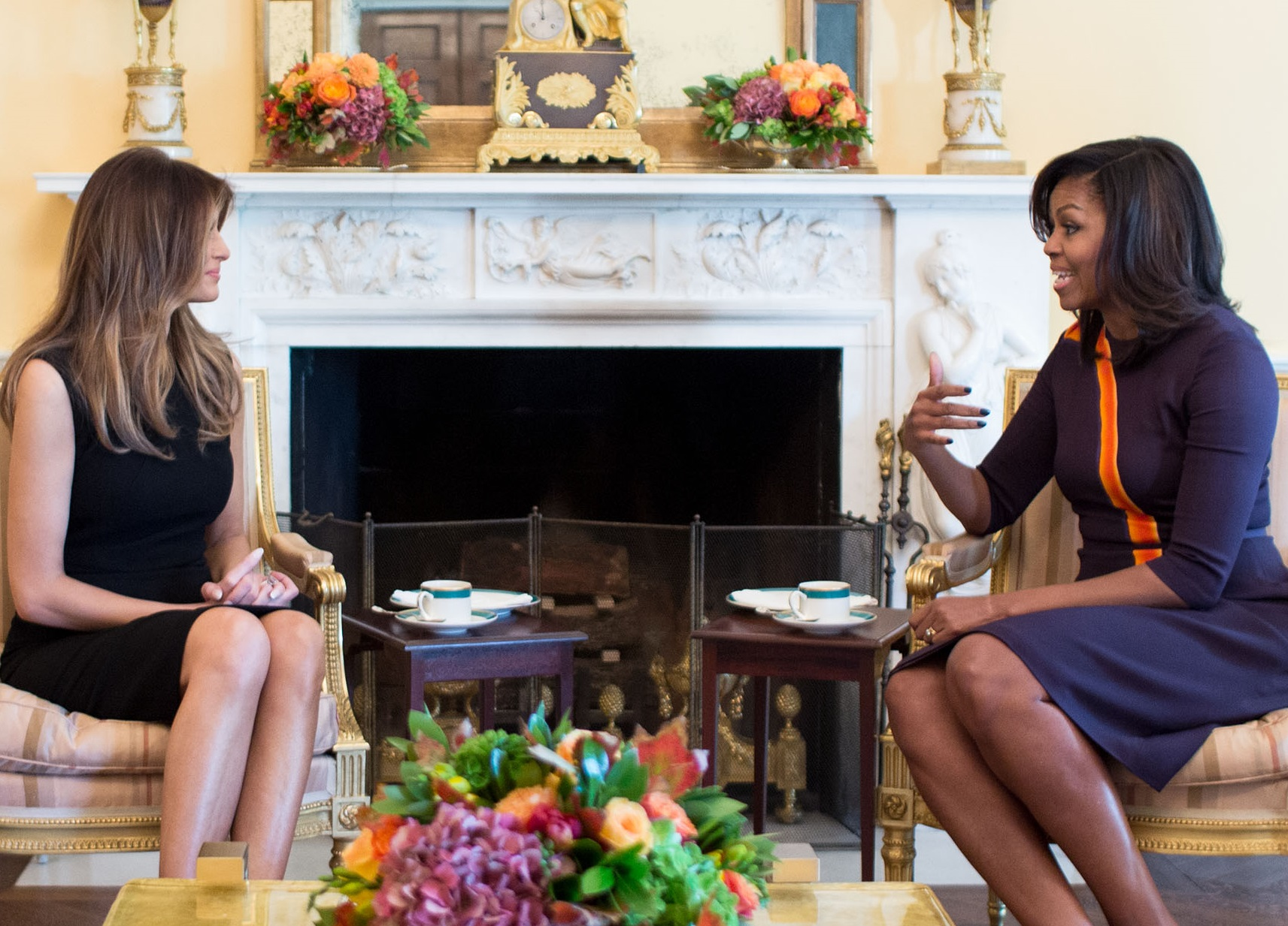 First Lady Michelle Obama meets with Melania Trump for tea in the Yellow Oval Room of the White House, Nov. 10, 2016. (Official White House Photo by Chuck Kennedy)